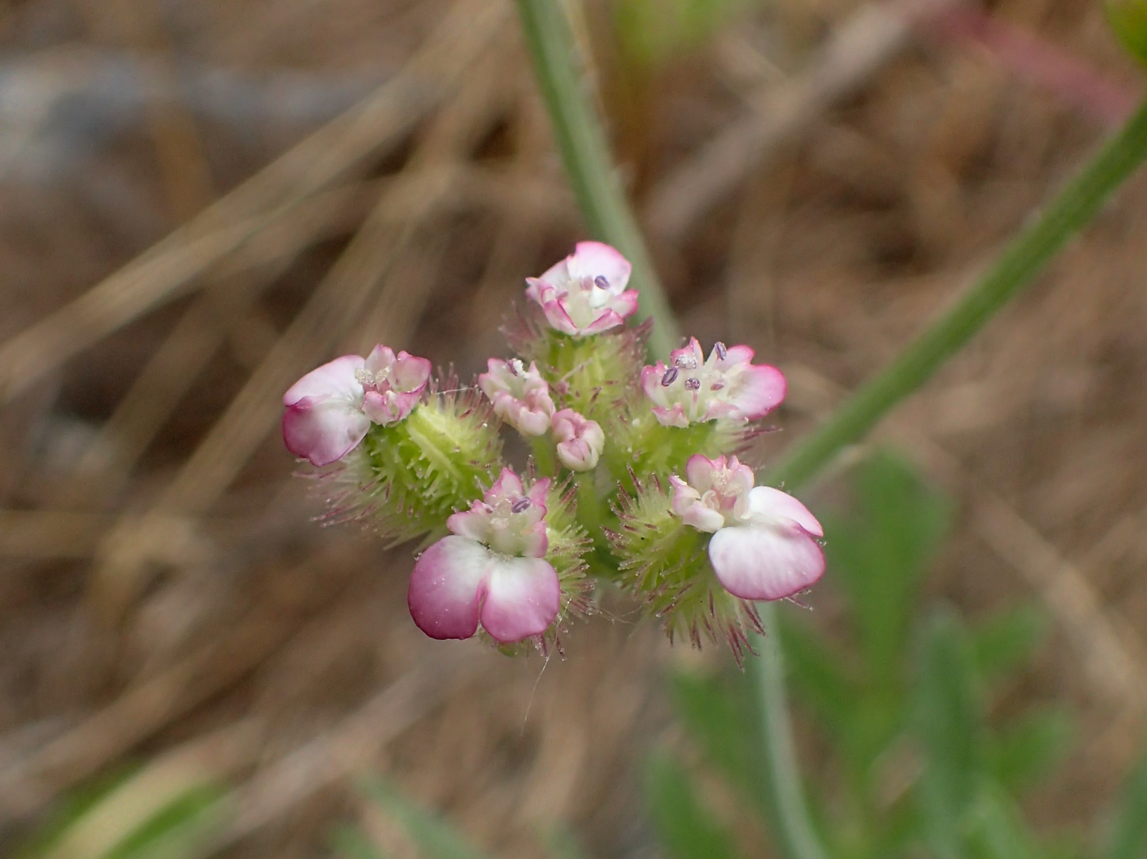 Turgenia latifolia in Hrazdan valley in Erevan, Armenia